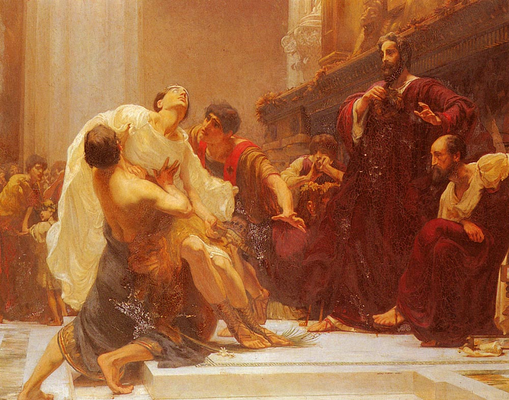 The Death Of Ladas, The Greek Runner, Who Died When Receiving The Crown Of Victory In The Temple Of Olympia George Murray (1899-1904) Oil on canvas, 1899 101.5 x 127 cm